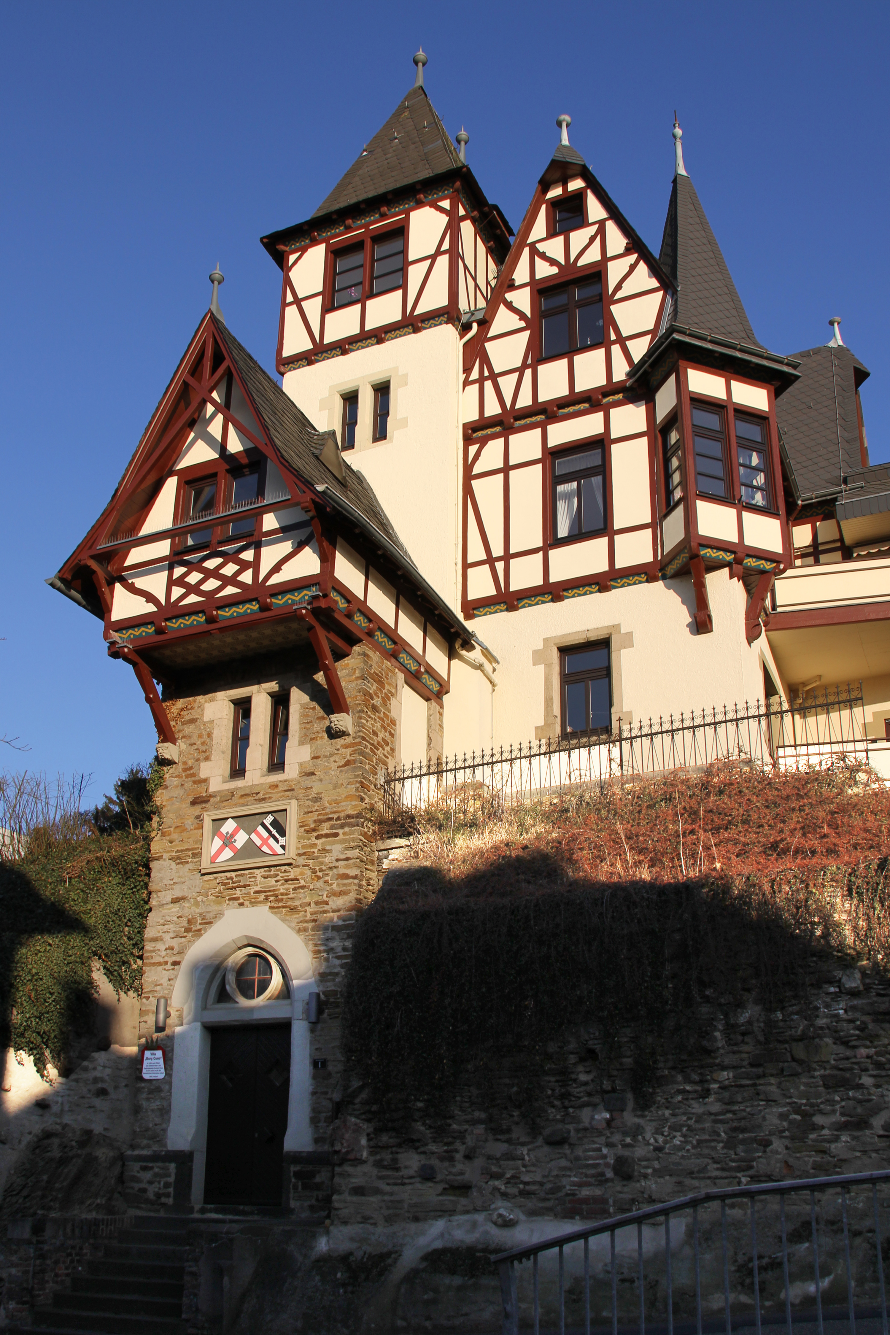 Haus Cuno in Koblenz